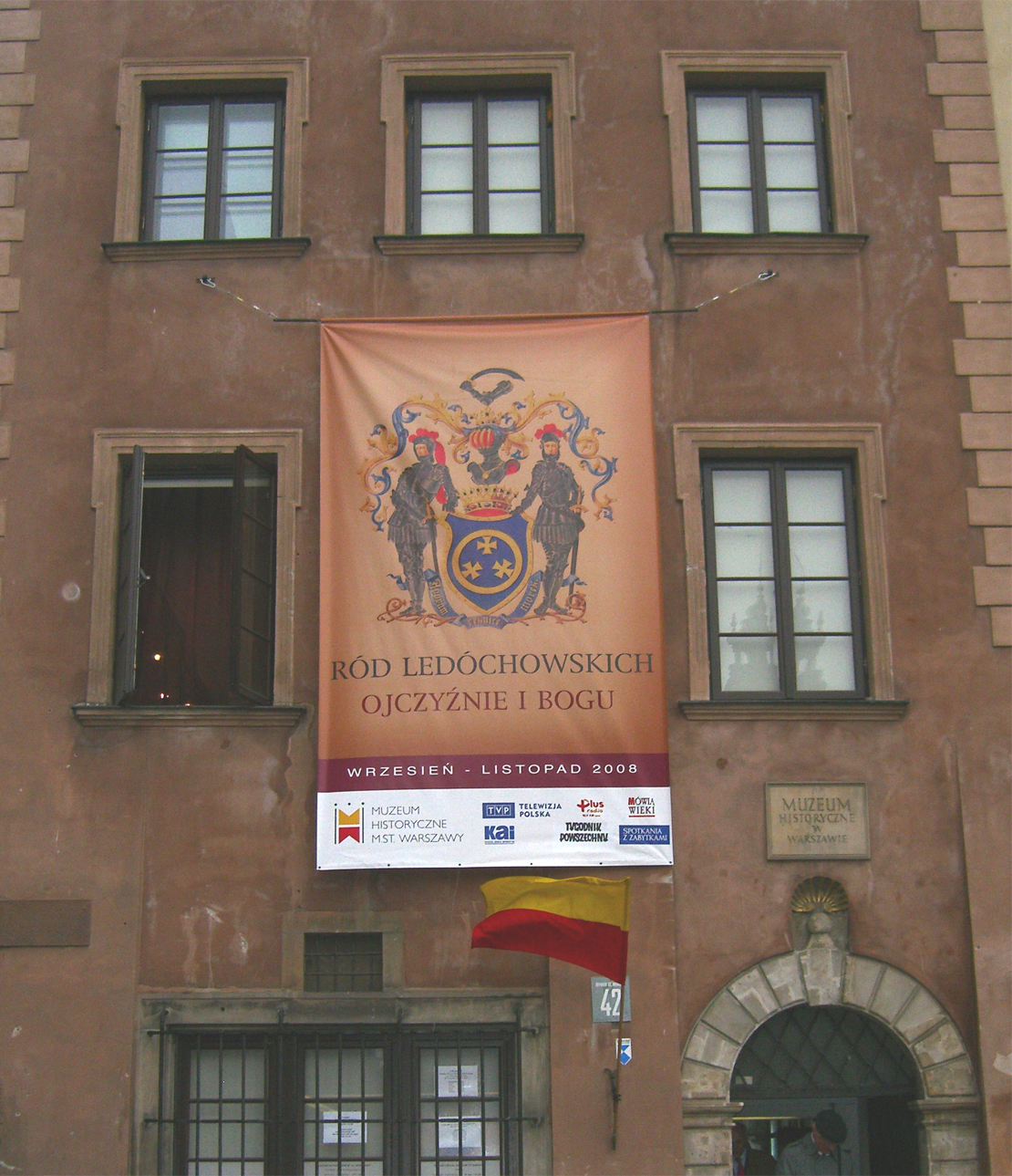 Ledochowski Exhibition 2008 at the Historical Museum of Warsaw Native nameMuzeum Historyczne m.st. WarszawyLocationWarsaw, PolandCoordinates52° 15′ 00.82″ N, 21° 00′ 42.06″ E Established1936Website control VIAF: 122866291